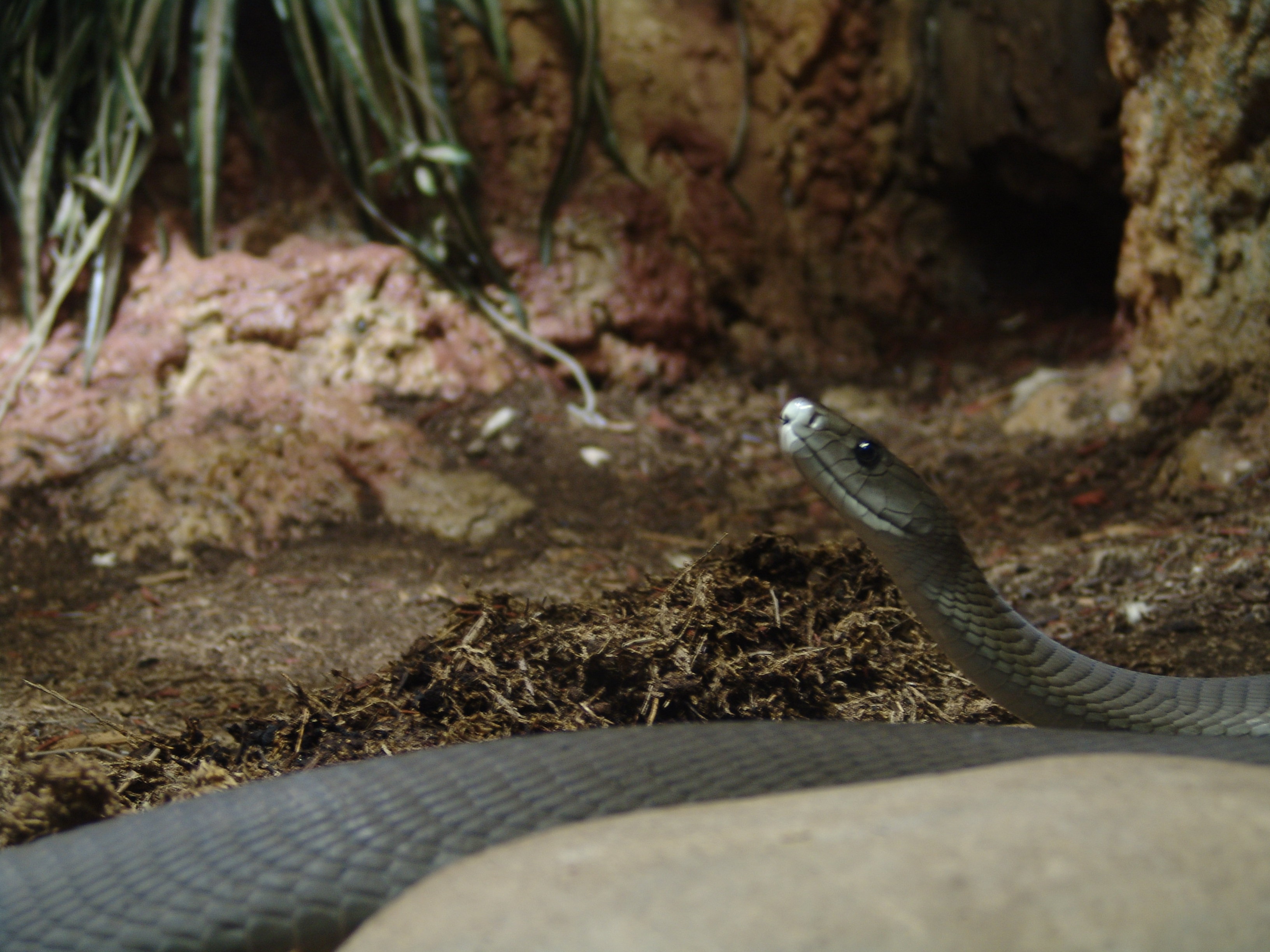 Black mamba at Wilmington's Serpentarium. I took the picture.